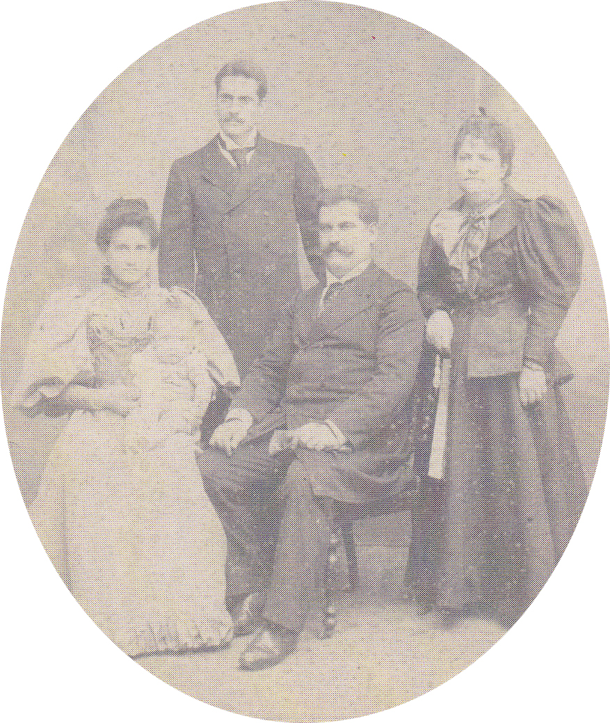 Members of the Silveira e Paulo family in a free pamphlet about the Palacette Silveira e Paulo by the Regional Government of the Azores